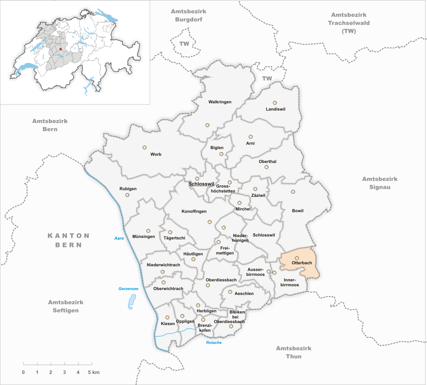 Municipality Otterbach